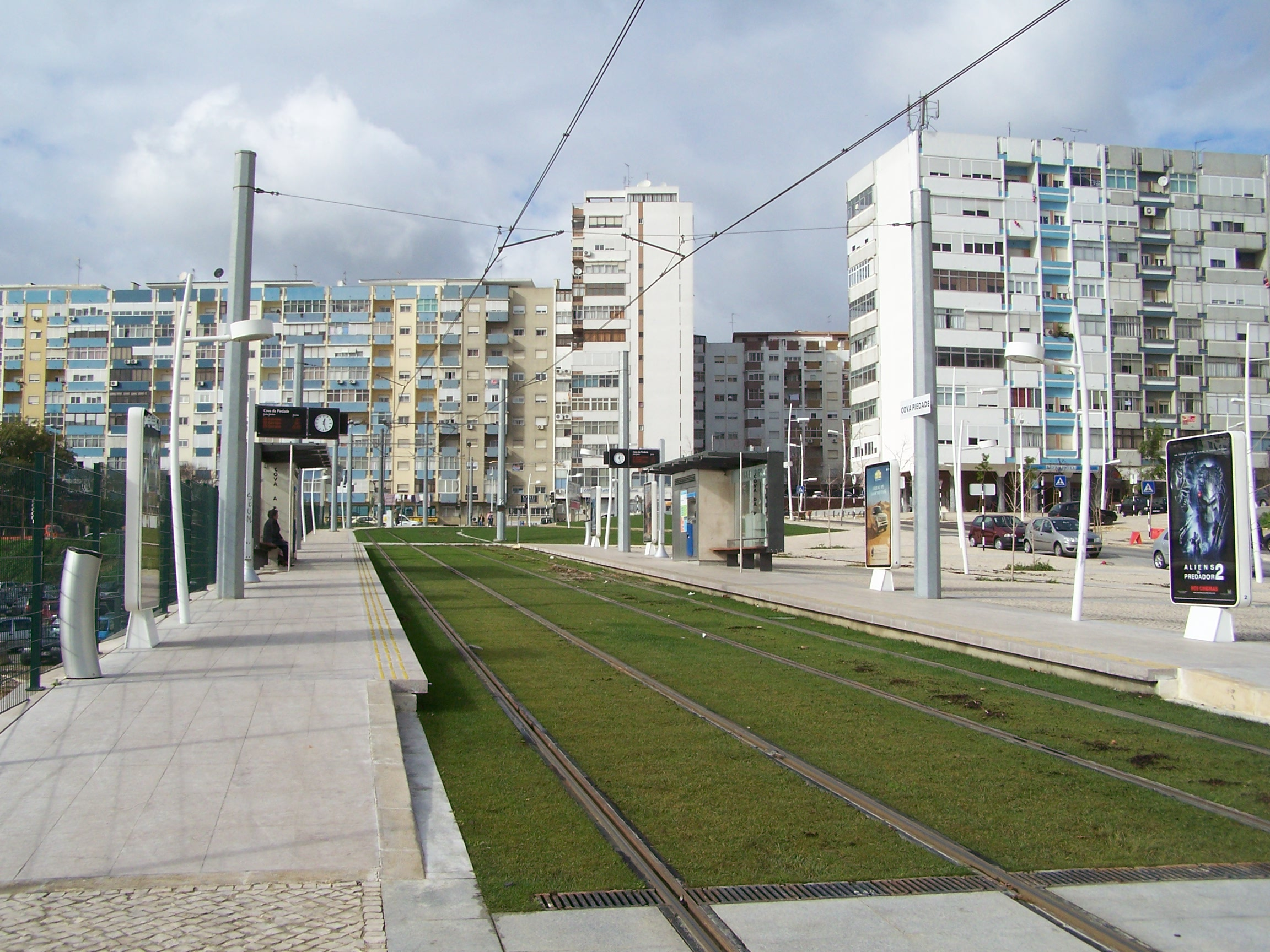 Cova da Piedade stop of the Metro Sul do Tejo, Cova da Piedade, Almada, Portugal